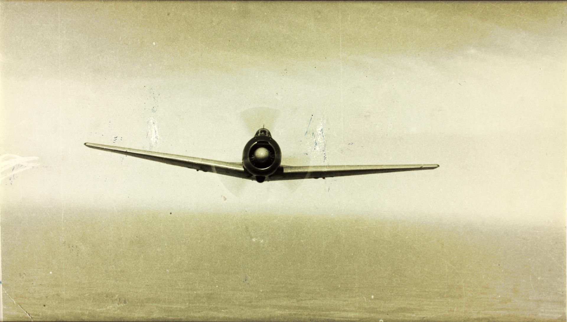 Front view of a Japanese Nakajima Ki-43 Hayabusa (隼 Peregrine Falcon), designated as an Army Type 1 Fighter, and referred to by Allied forces as "Oscar".